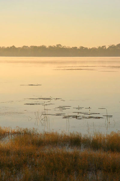 Mamukala Wetlands, near Jabiru, Northern Territory.